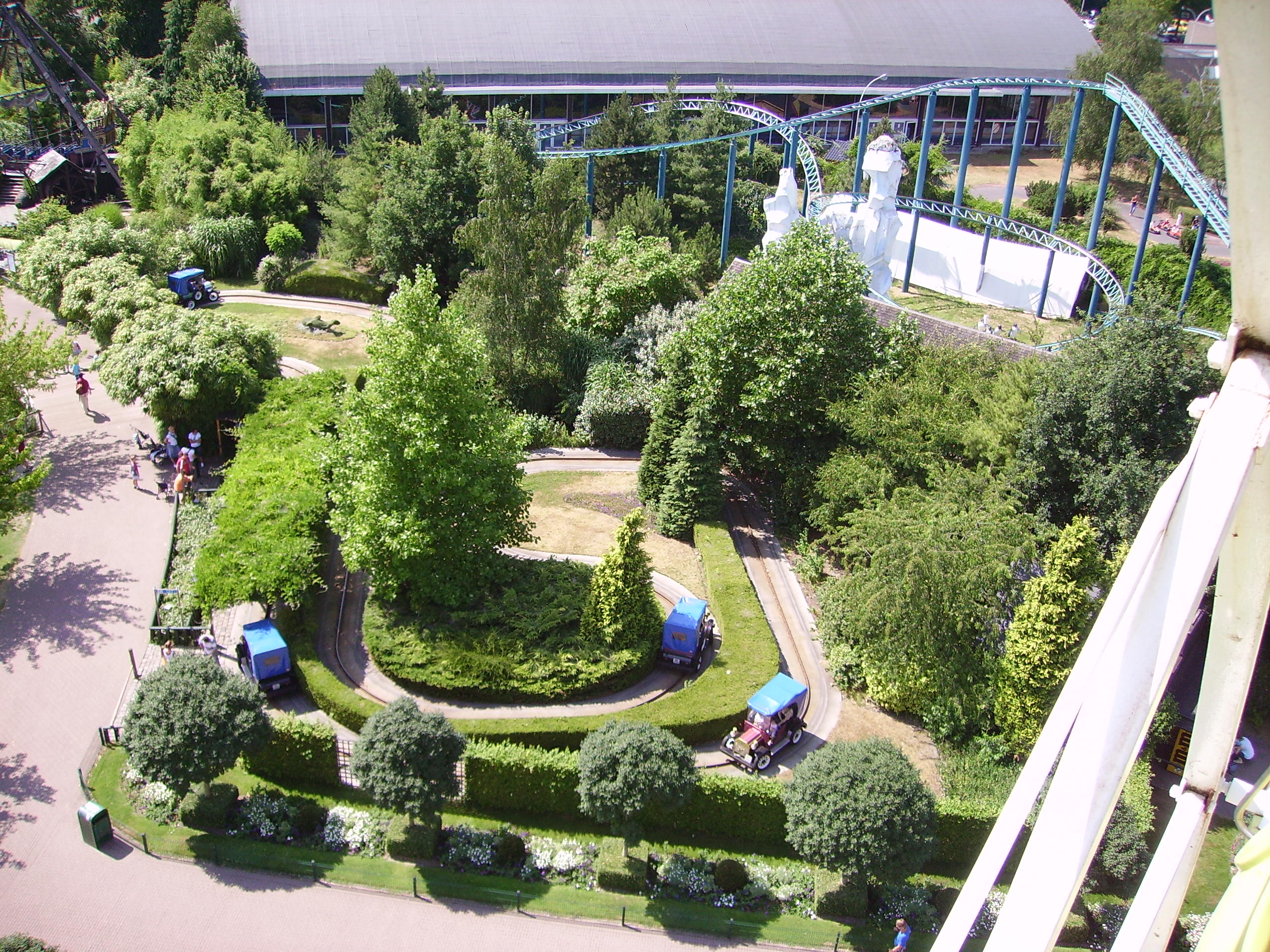 Boudewijnpark near Brugge, Belgium